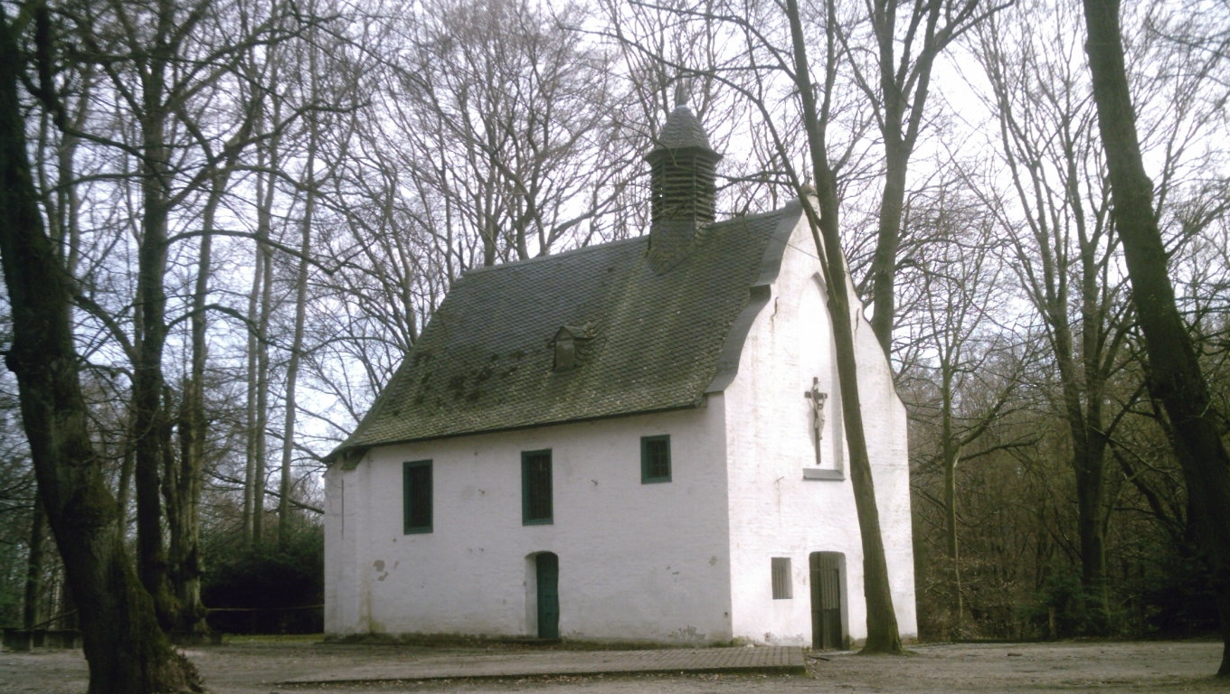 Saint Irmgardis Chapel in Süchteln, Viersen, Germany